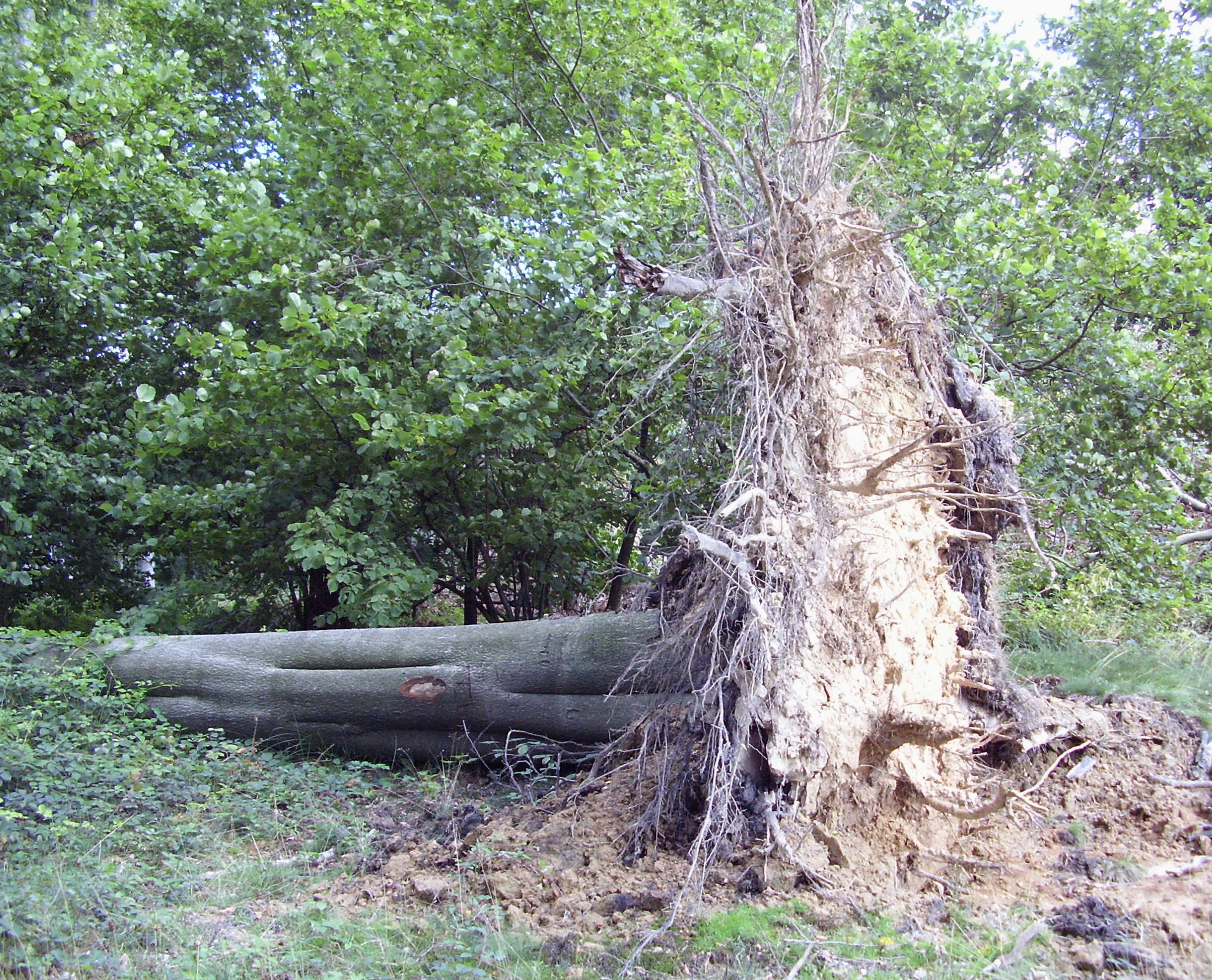 Description: Forêt de Soignes, chabli (Bruxelles) Author: User:Ben2 Date of creation: 29 août 2006 Source: Photo personnelle